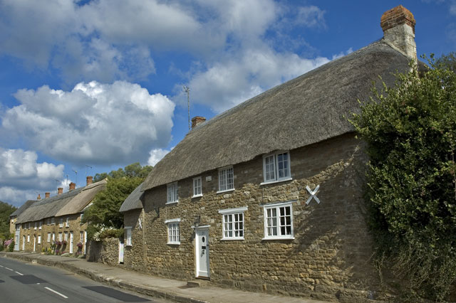 Abbotsbury Main Street. Looking towards Abbotsbury Gardens just before the right hand bend and the steep hill out of the village.